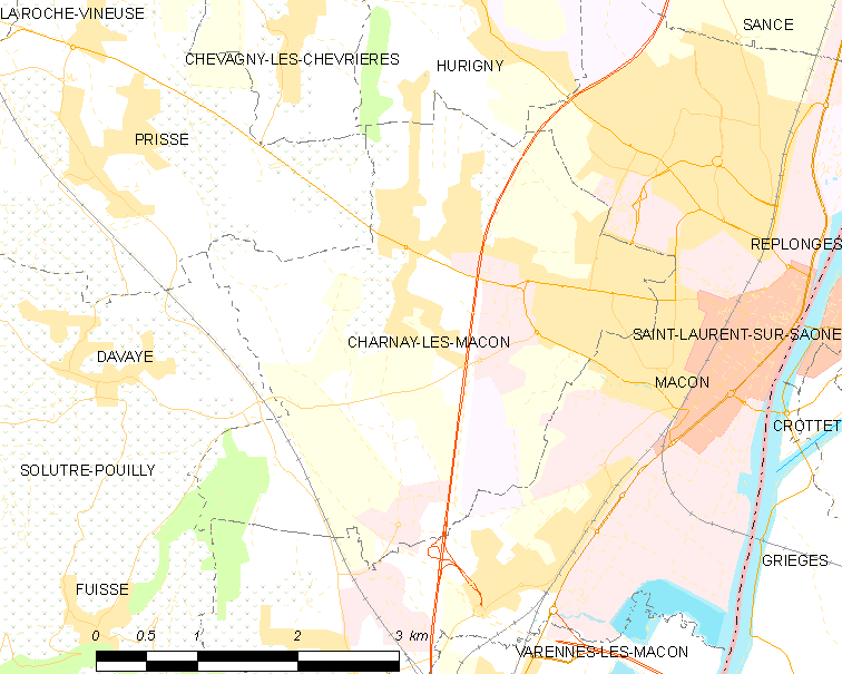 Map of French municipality